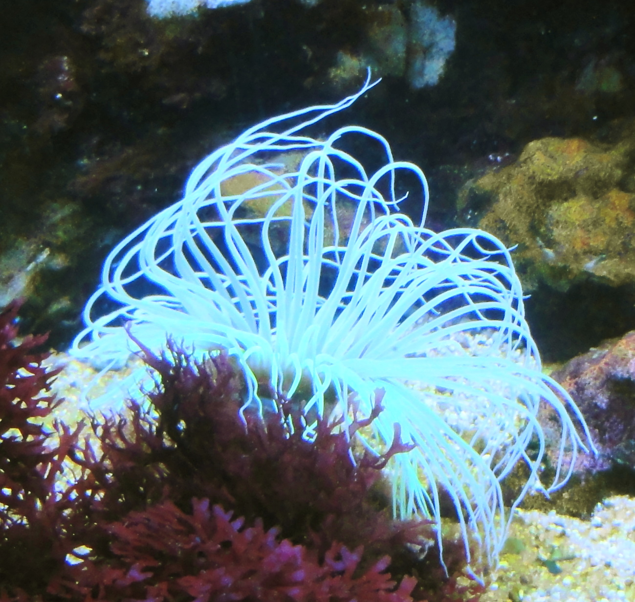 Cerianthus membranacea